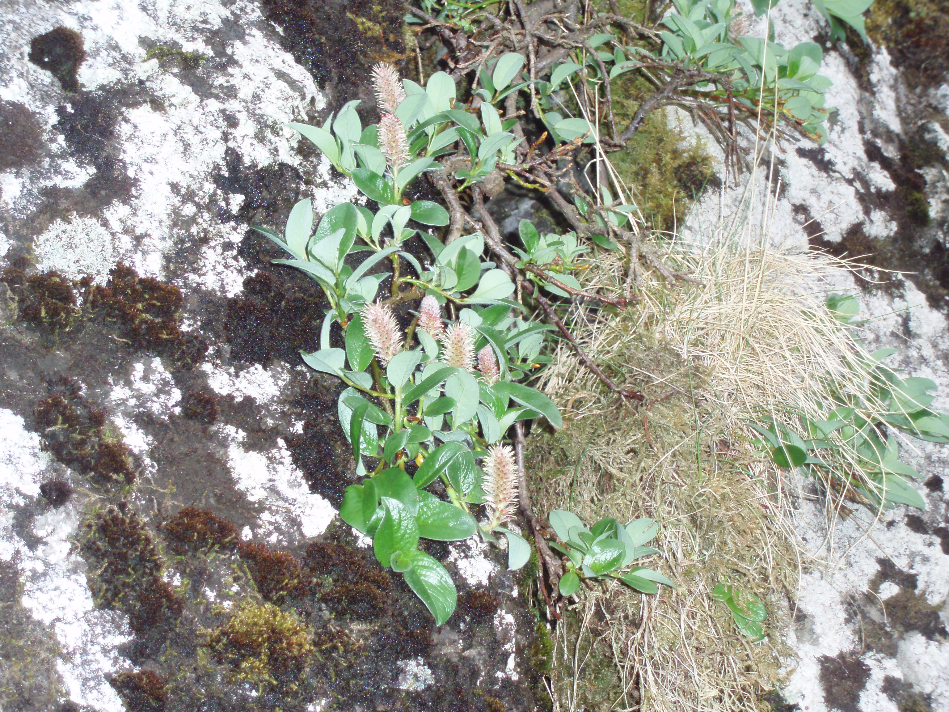 Faroenature/Finn